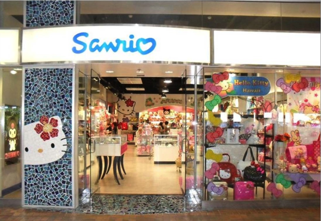 Nakajima USA Storefront